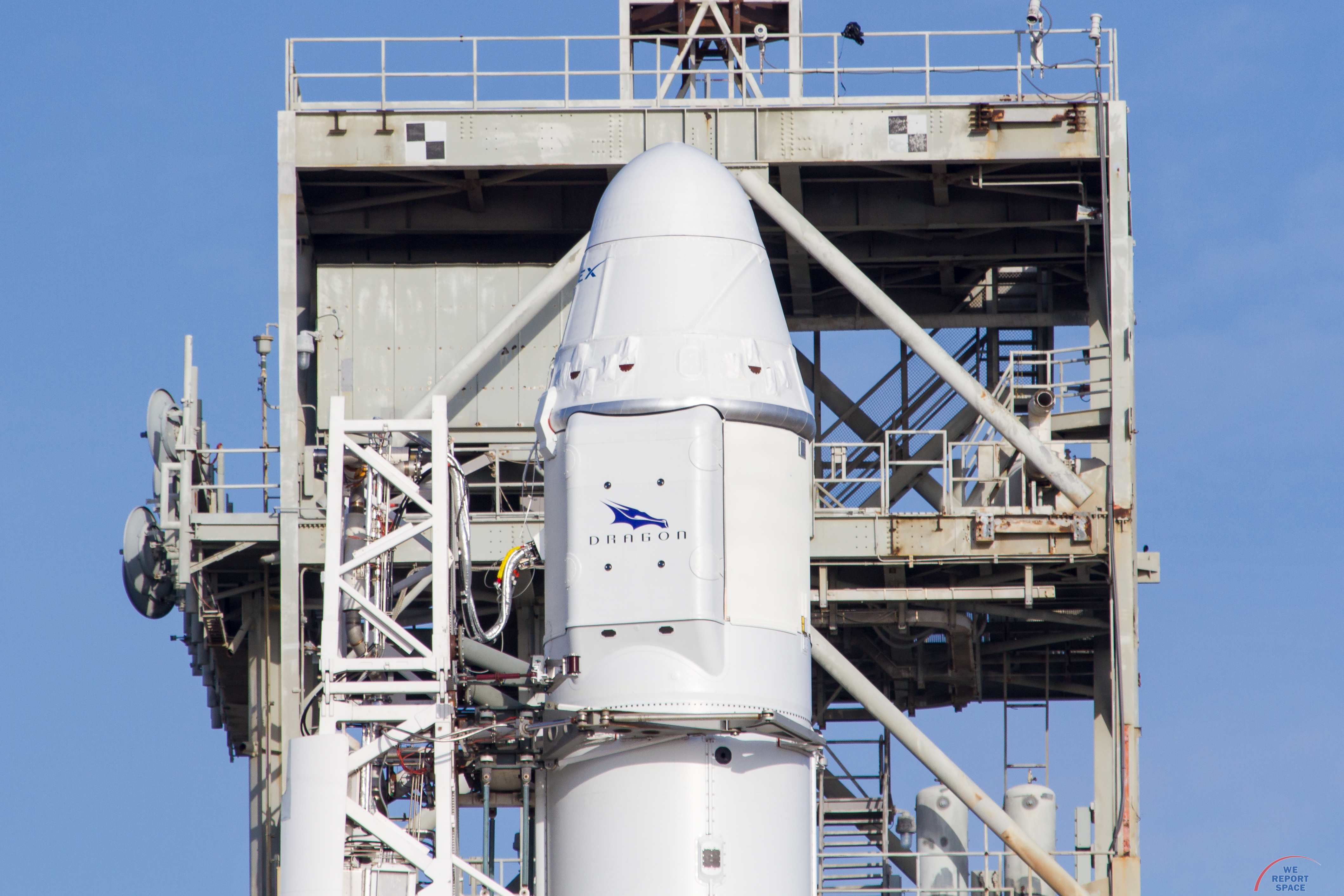 This is a close-up of the "flight-proven" CRS-11 Dragon capsule. (Photo by Michael Seeley / We Report Space)